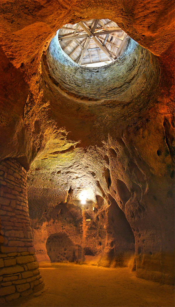 Rochemenier troglodytic farms, Maine-et-Loire, Pays de la Loire, France. Former underground chapel.